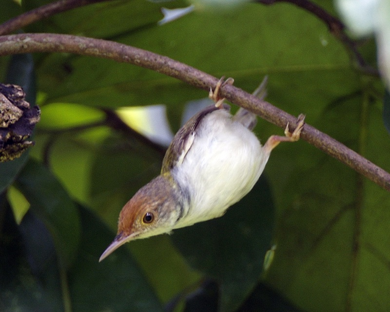 Dark-necked Tailorbird - female Orthotomus atrogularis ssp Orthotomus atrogularis atrogularis Grounds of a disused zoo, Semarang, Java, Indonesia March 23, 2008 690V2940